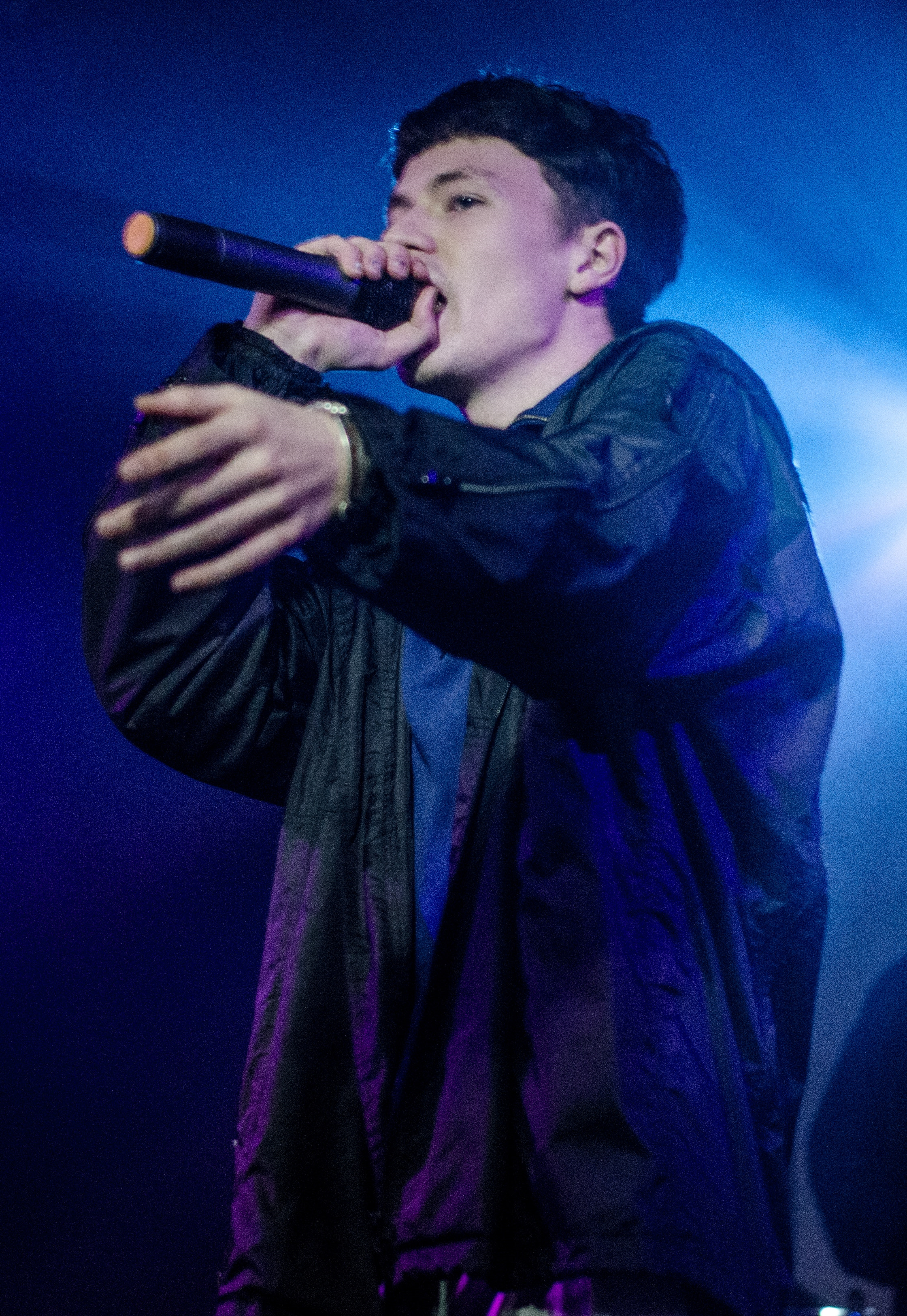 Bladee performing at The Hoxton on March 24th, 2016.